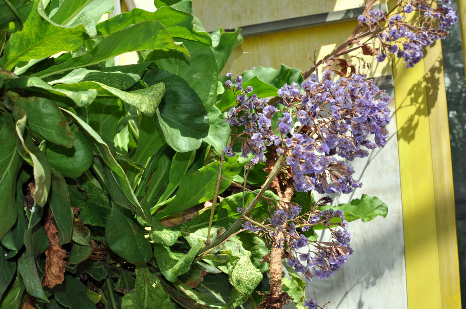 Limonium macrophyllum Conservatoire botanique national de Brest Native nameConservatoire botanique national de BrestLocationBrest, FranceCoordinates48° 24′ 10.35″ N, 4° 26′ 53.58″ W Established1975: established, 1978: opened to publicWeb page control : Q2994486 ISNI: 0000 0000 9261 8684 LCCN: no95047958 WorldCat institution QS:P195,Q2994486